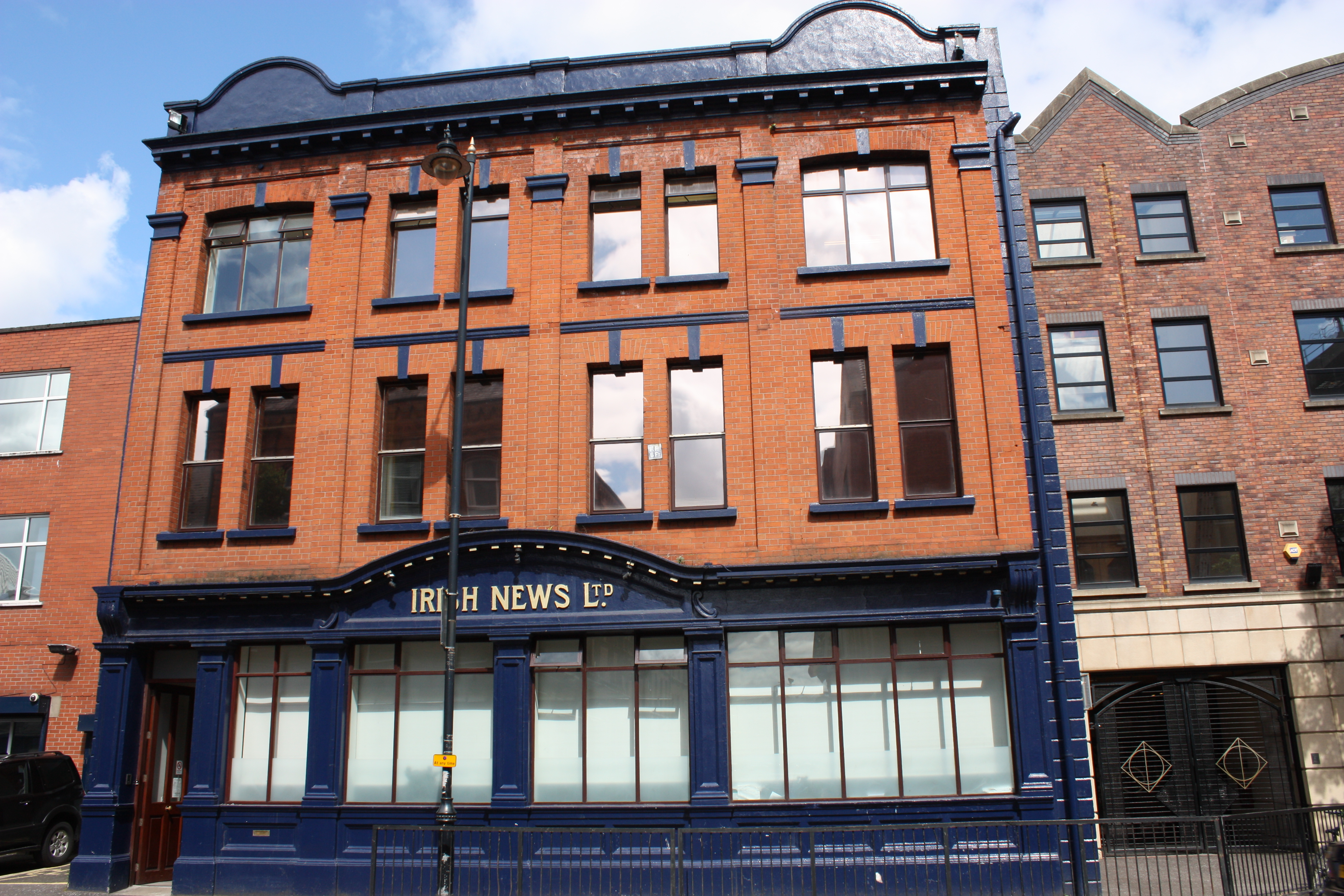 Irish News, Donegall Street, Belfast, Northern Ireland, July 2010